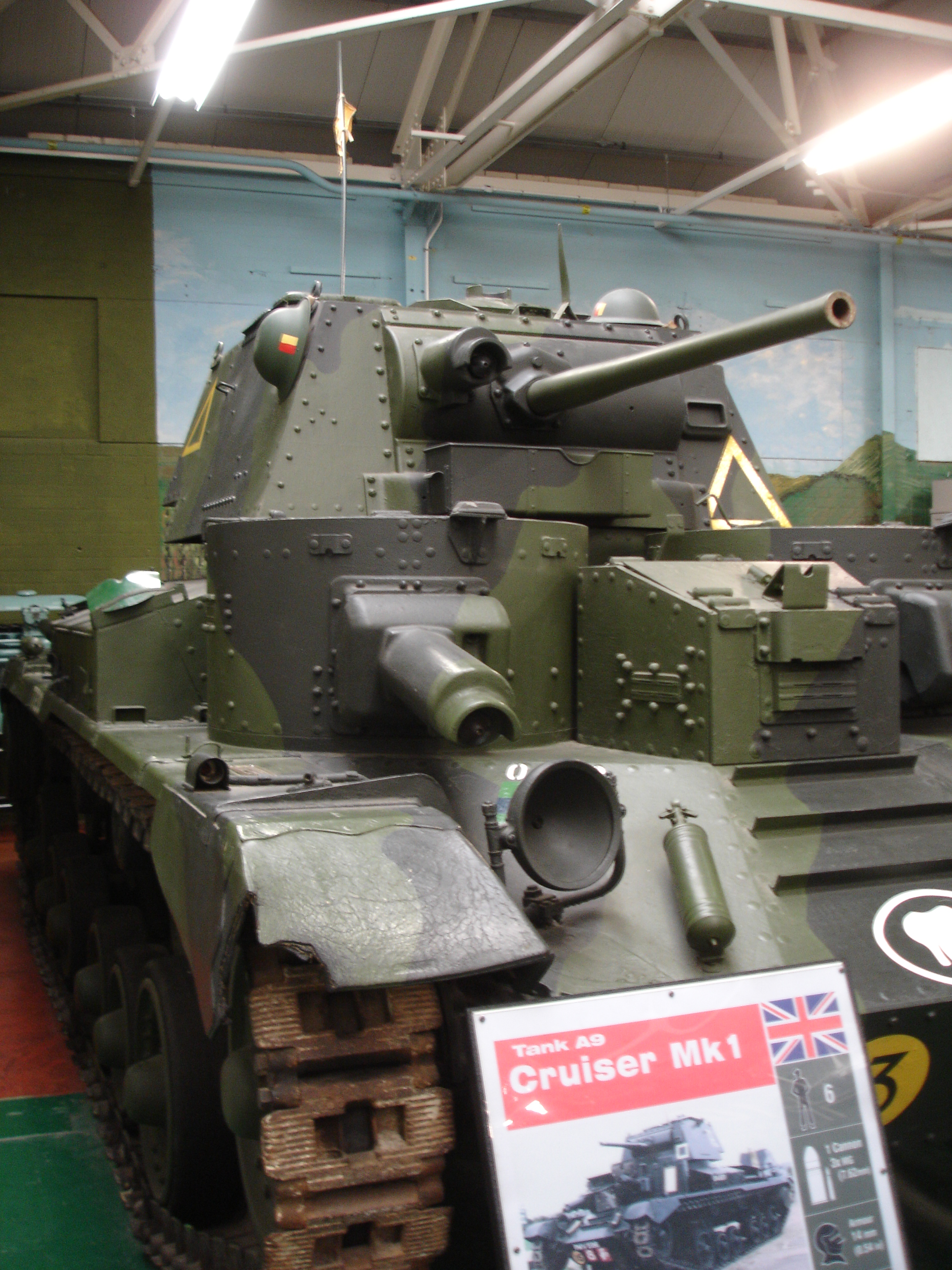 Cruiser Mk I tank at Bovington Tank Museum.